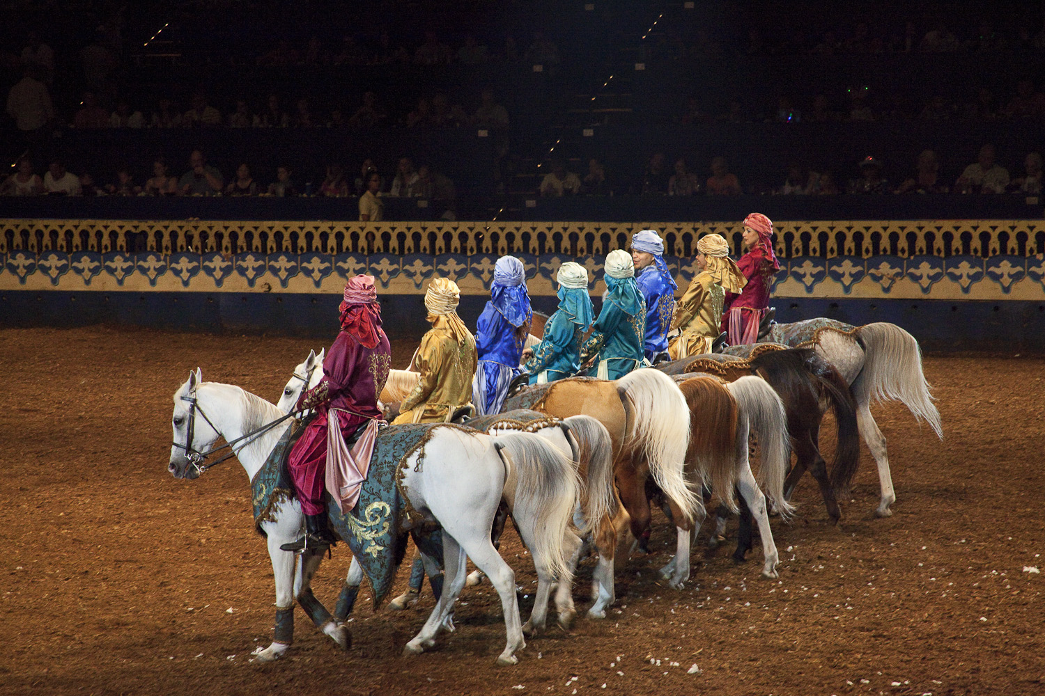 Orlando_May-2010-7413 Arabian nights dinner show